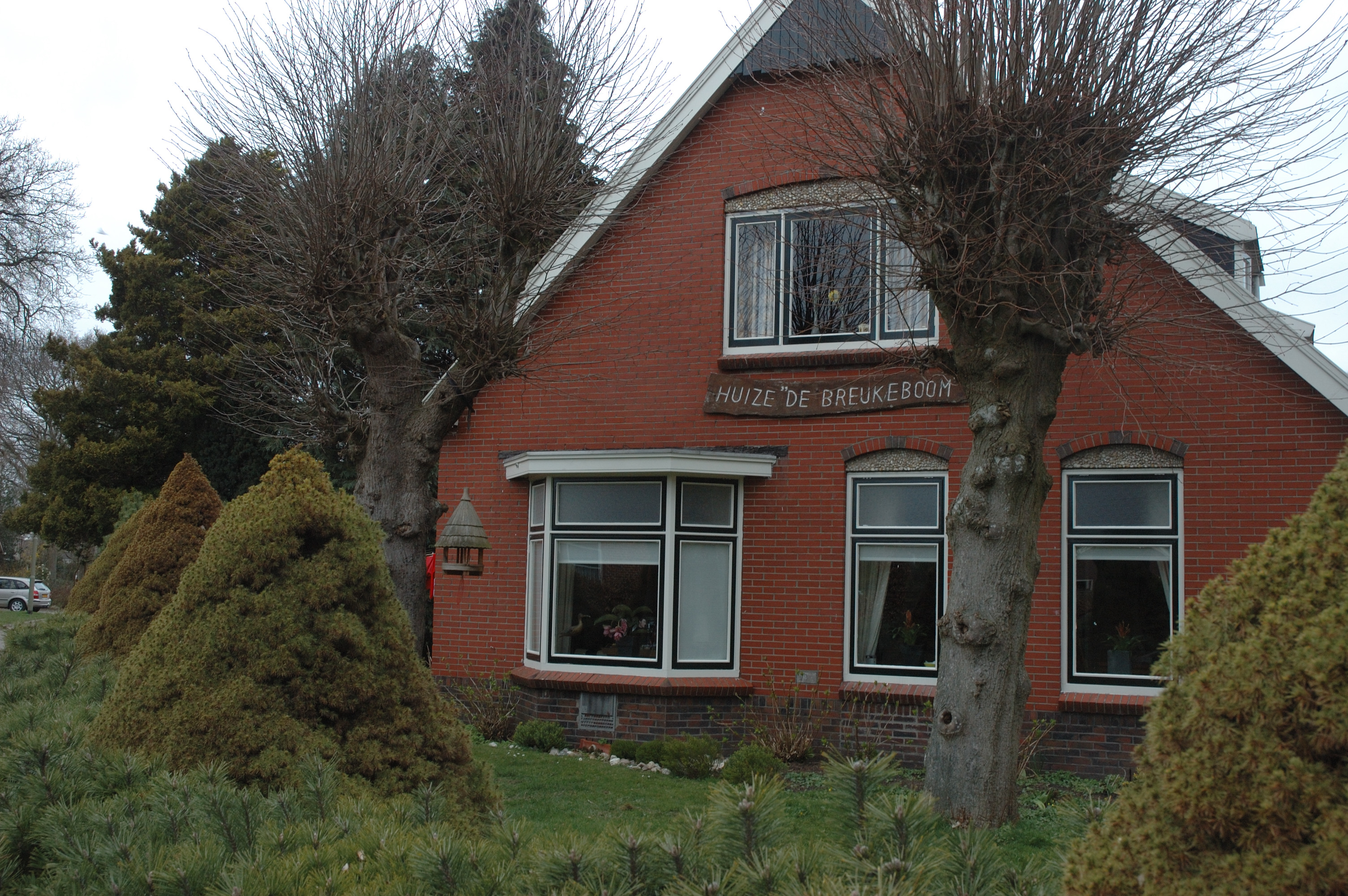 Yde, Drenthe, The Nethetlands. Breukenbomen. According to popular belief people suffering from inguinal hernias could be healed by driving nails into these threes (19th century).